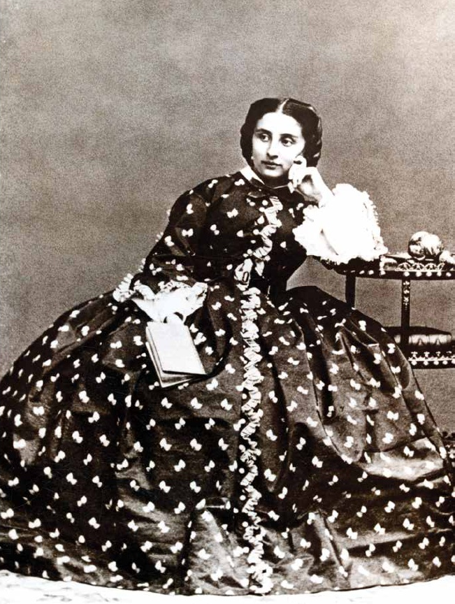 Maria da Assunção Ferreira, Countess of Azambuja (1842-1905).